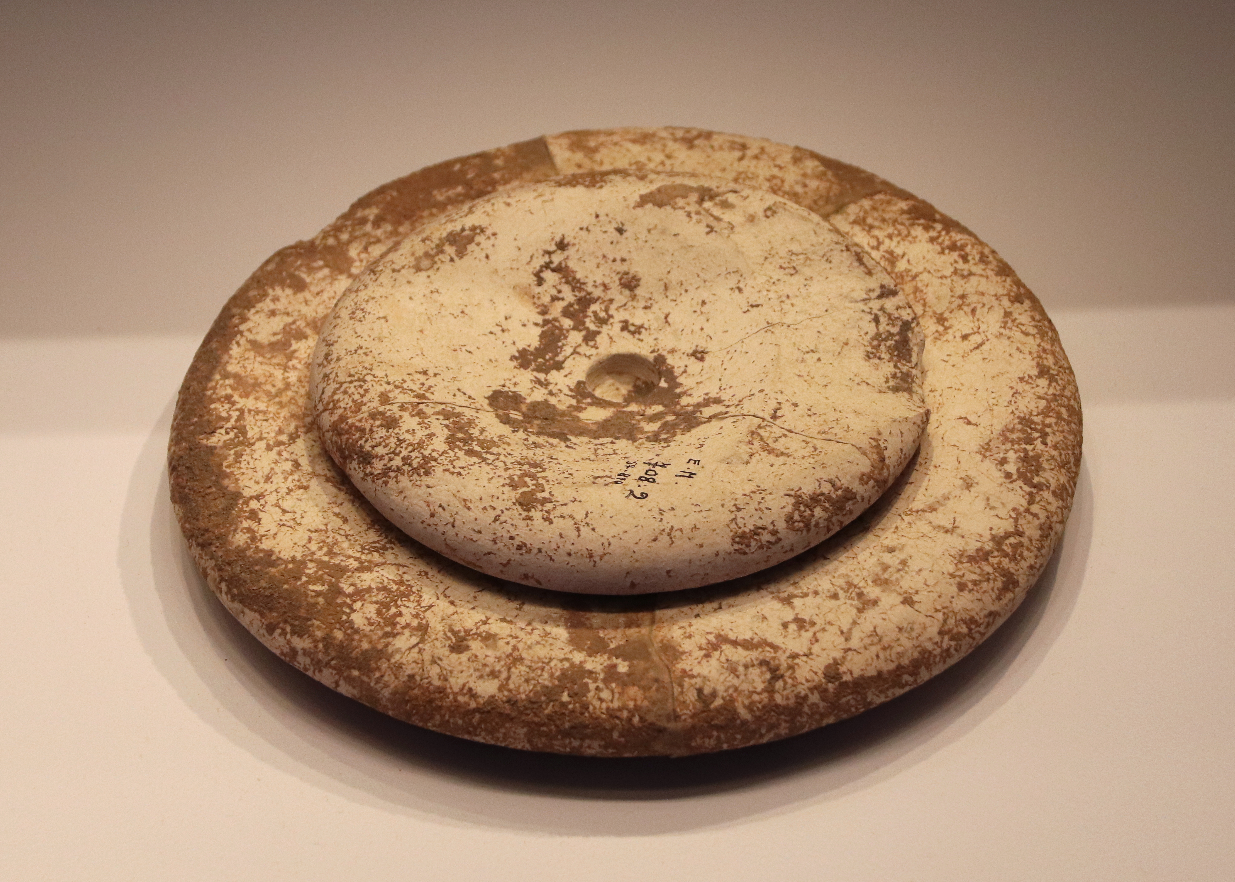 Israel Museum Stone Age Artifact Israel Museum, Jerusalem, Israel. Complete indexed photo collection at .